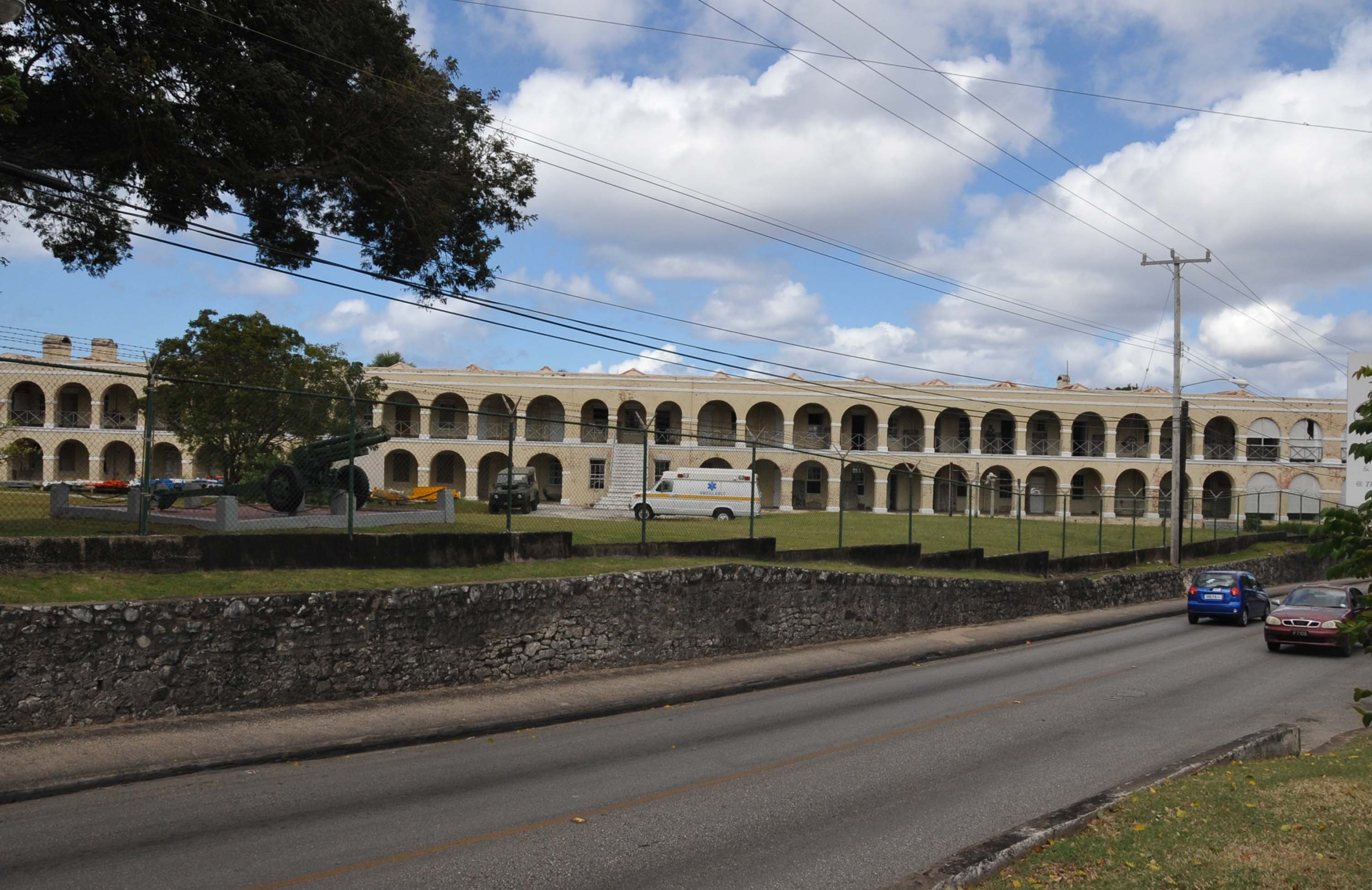 STONE BARRACKS - THE STONE ARCHES WERE ADDED AFTER A 1831 HURRICANE REPLACING WOODEN BALUSTRADES